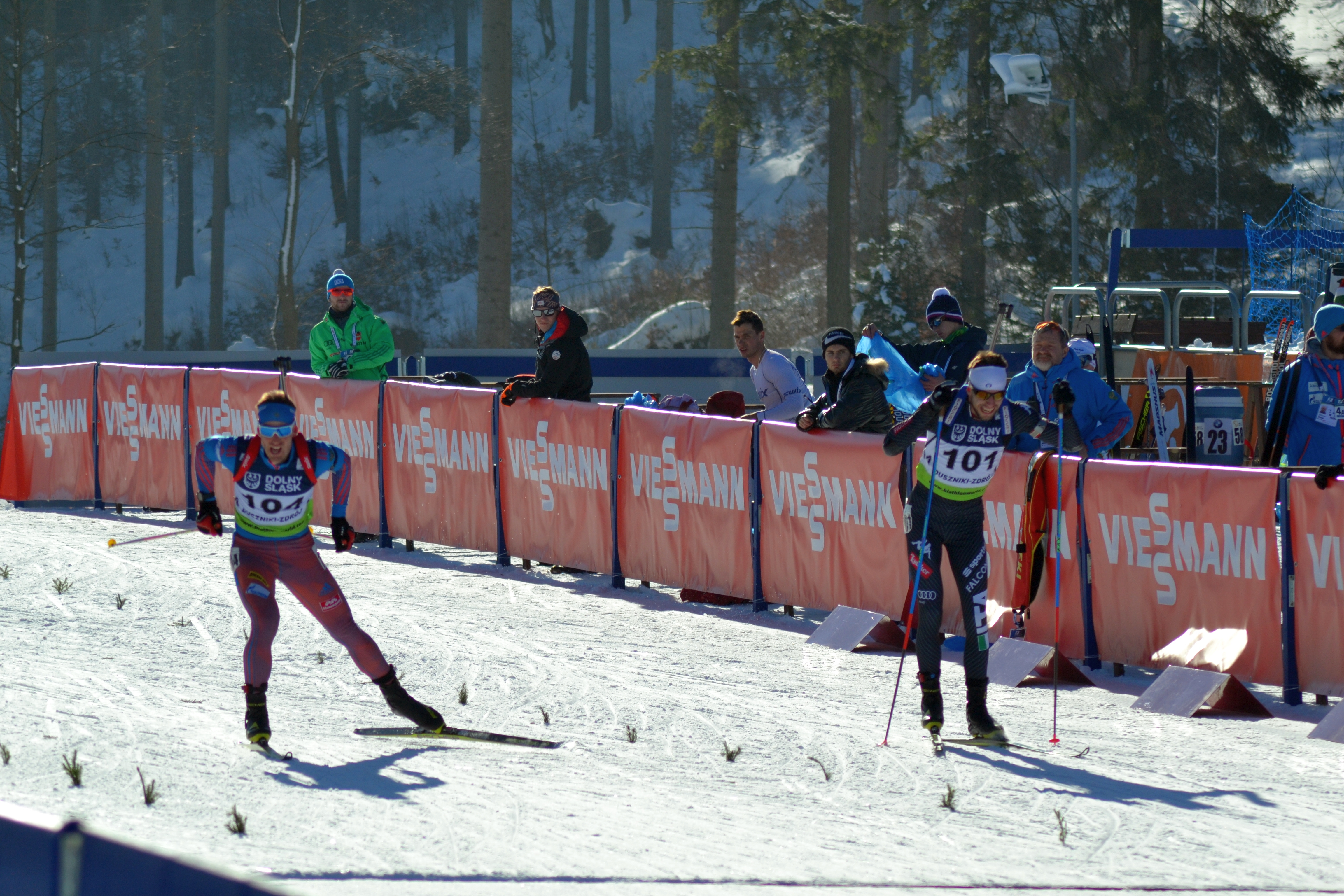 Open European Championships Biathlon 2017, Sprint Mens race.